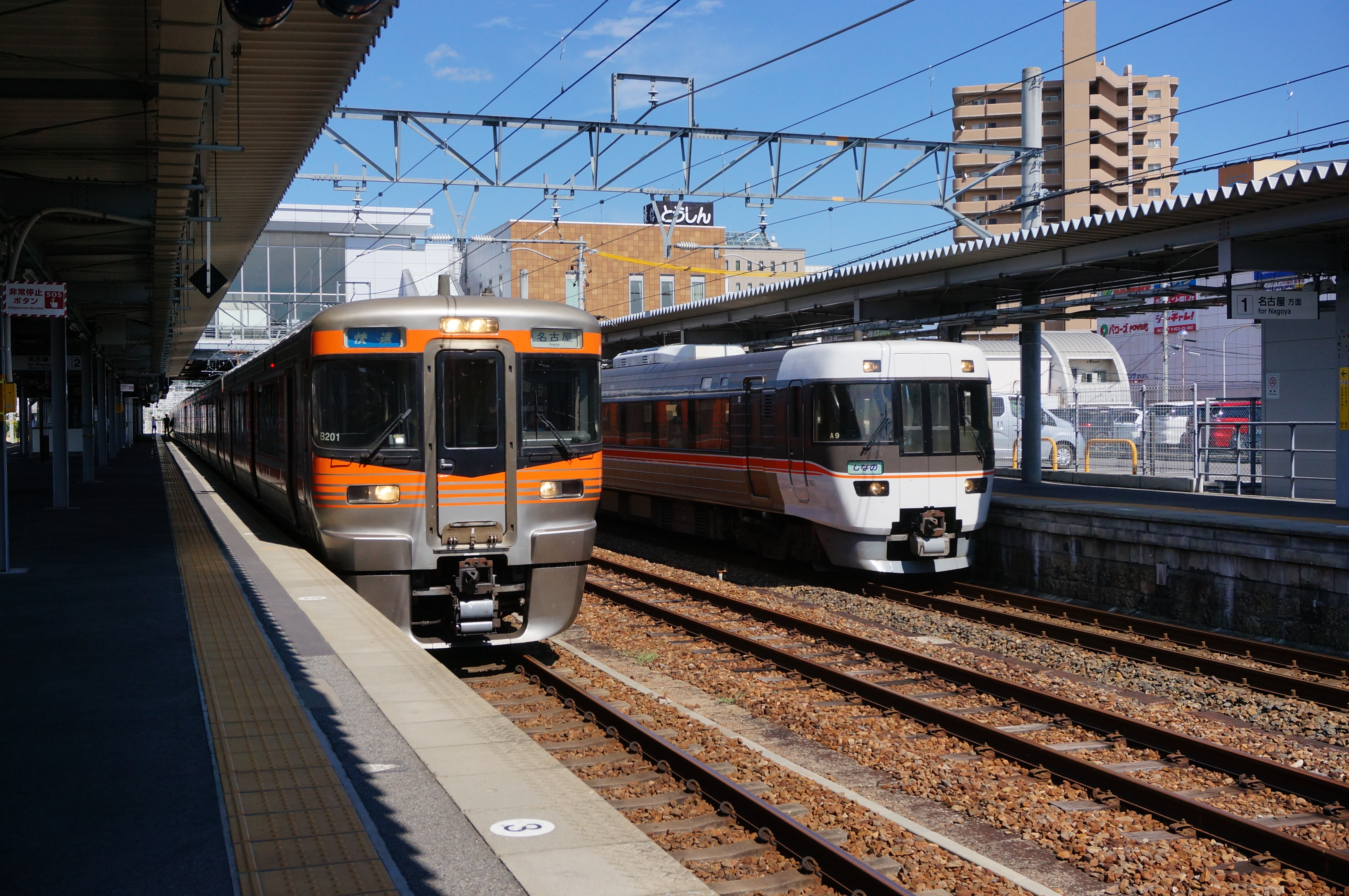 Limited Express Shinano and Rapid Service at Tajimi Station